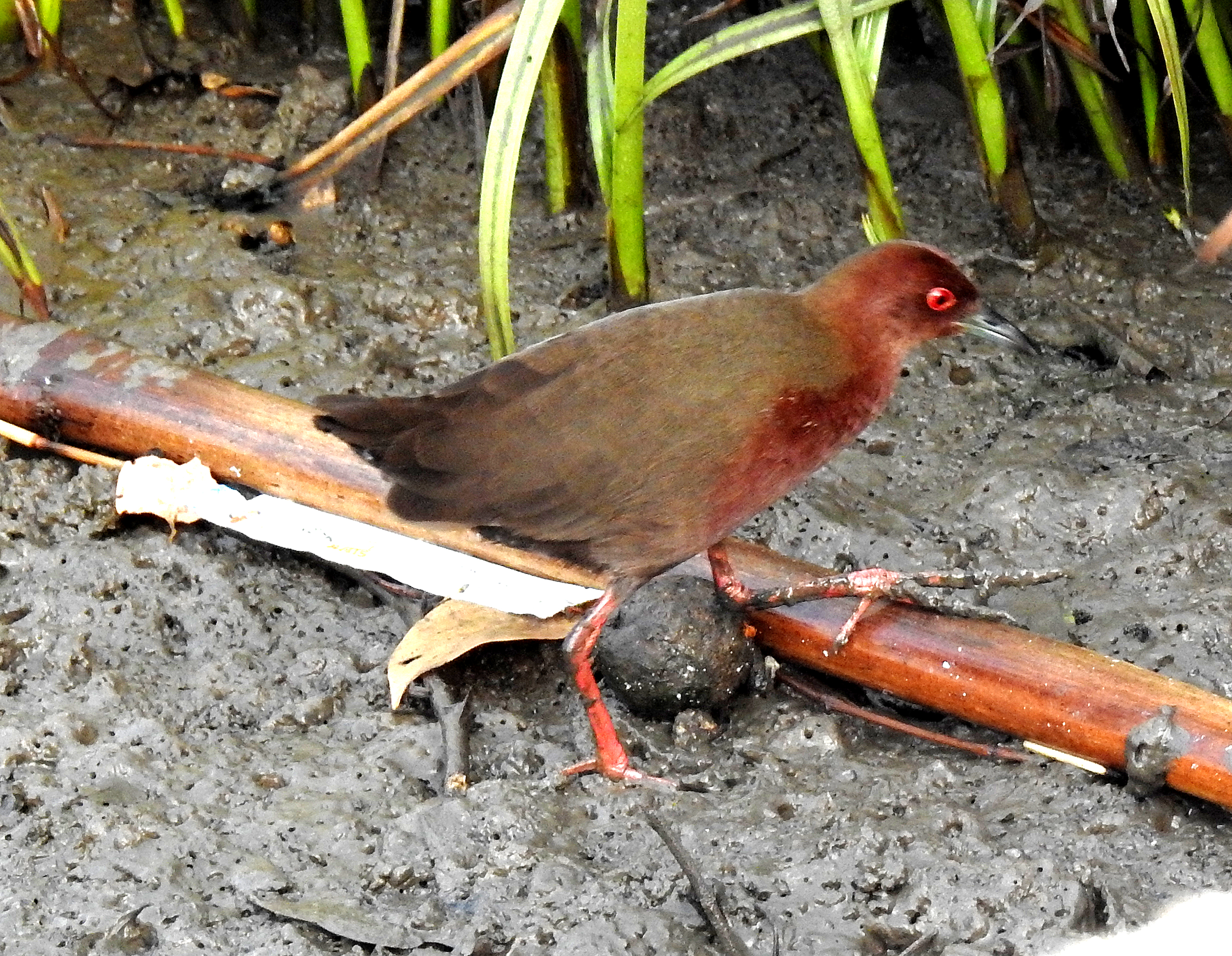 Ruddy-breasted Crake Porzana fusca. Photographed by Dr. Raju Kasambe near Dombivli, dist. Thane, Maharashtra, India.